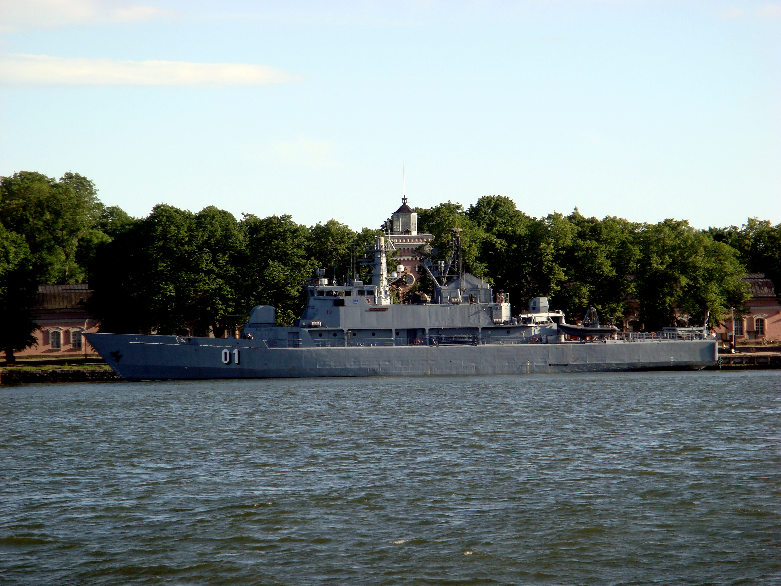 Minelayer Pohjanmaa of the Finnish Navy docked in Suomenlinna fortress, just outside of Helsinki.